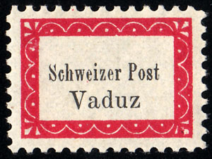 Municipal Post stamp, Vaduz-Sevelen, Liechtenstein, 1919, Michel No. IA.